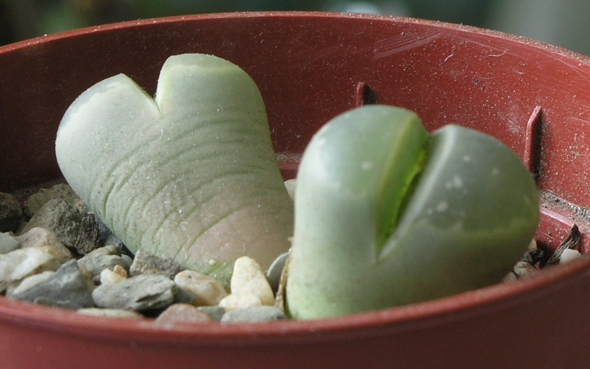 Lithops olivacea (plant collection of Ivan I. Boldyrev, Berdsk, Russia)